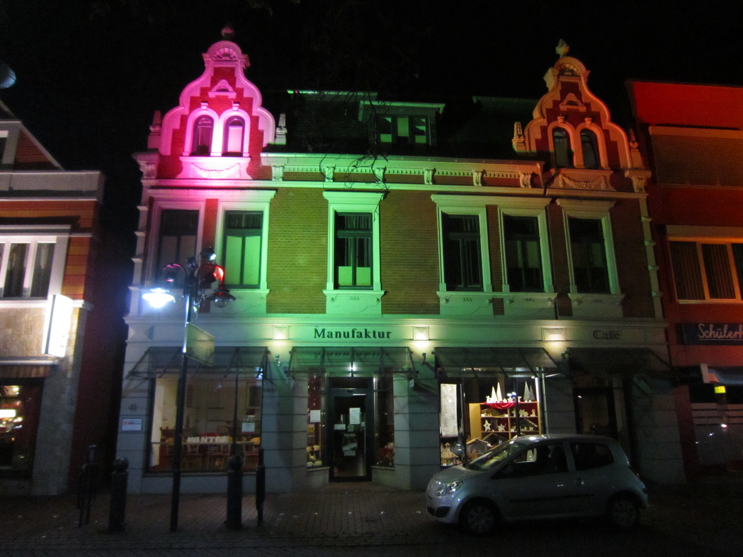 "Manufaktur" building - Shop, café, workshop and appartments for disabled people in Vechta's centre